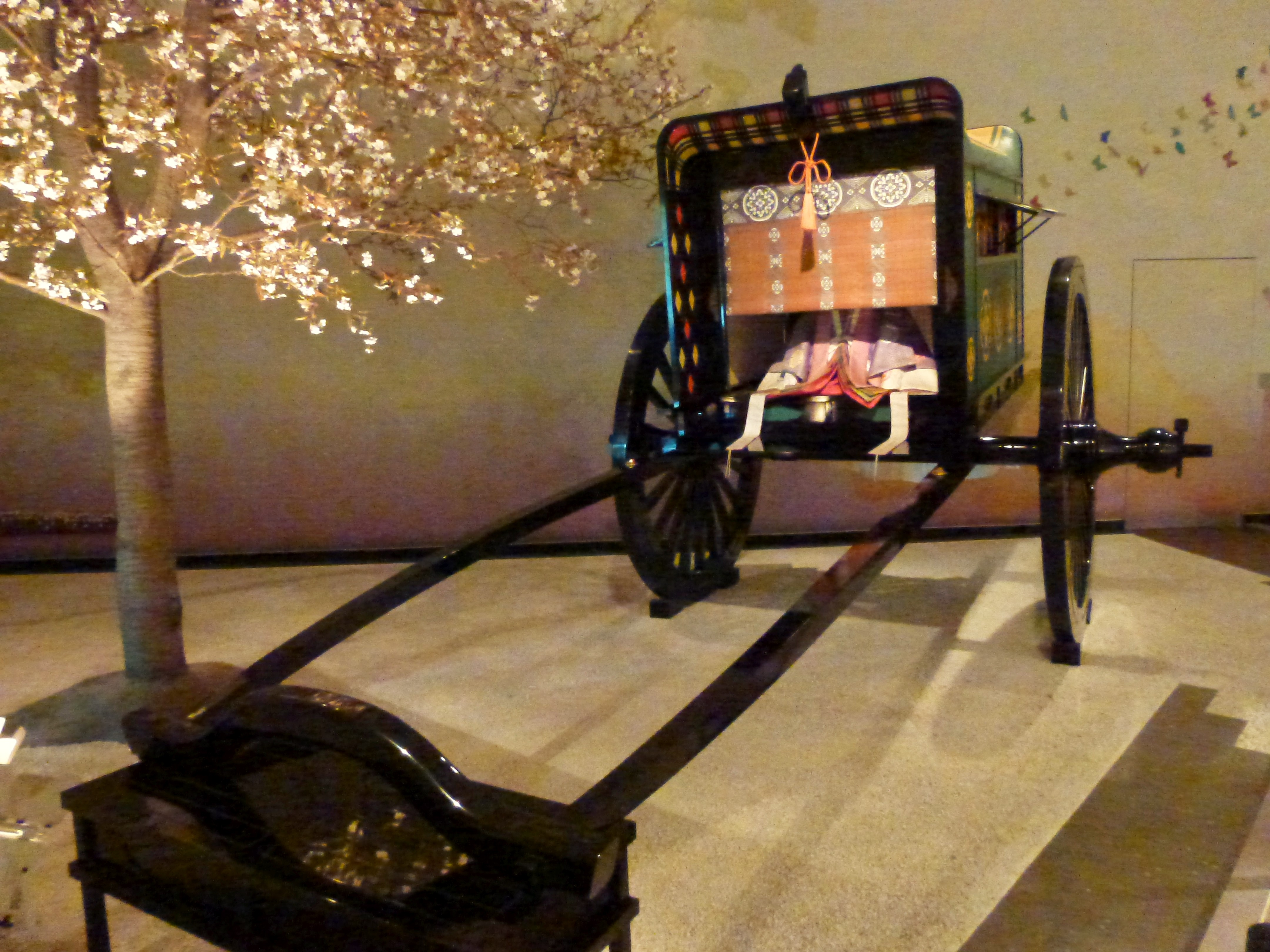 An oxen-drawn carriage in the Tale of Genji Museum